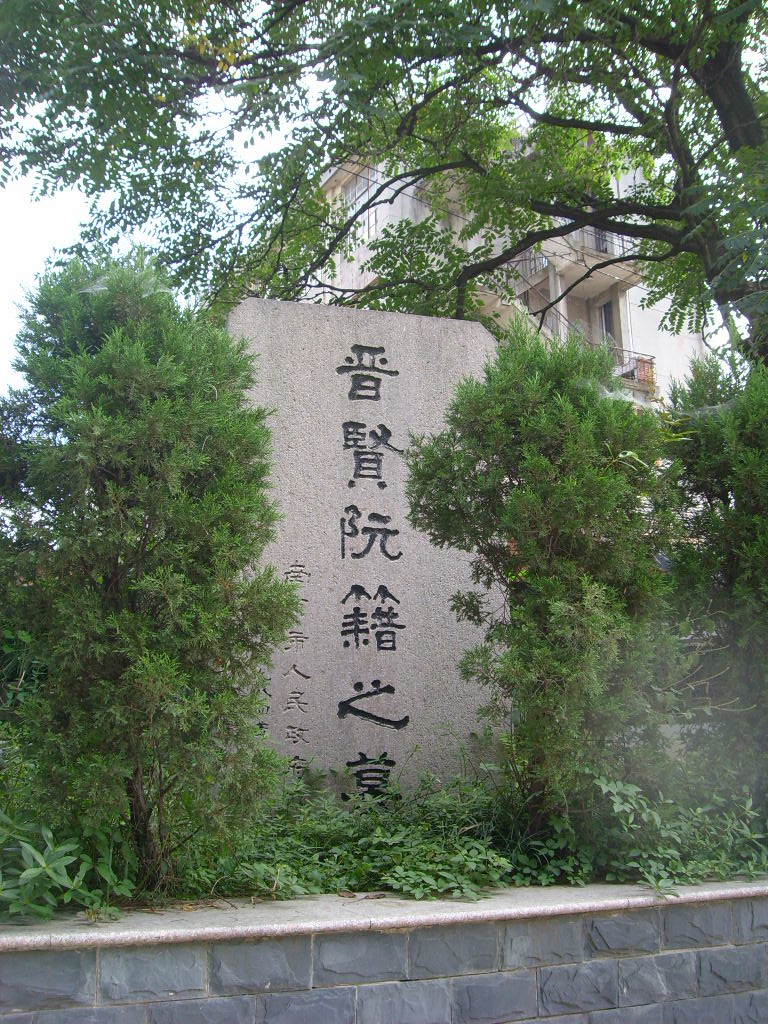 Memorial tombstone of Ruan Ji in Nanjing, China. Located in the Nanjing No. 43 High School campus.